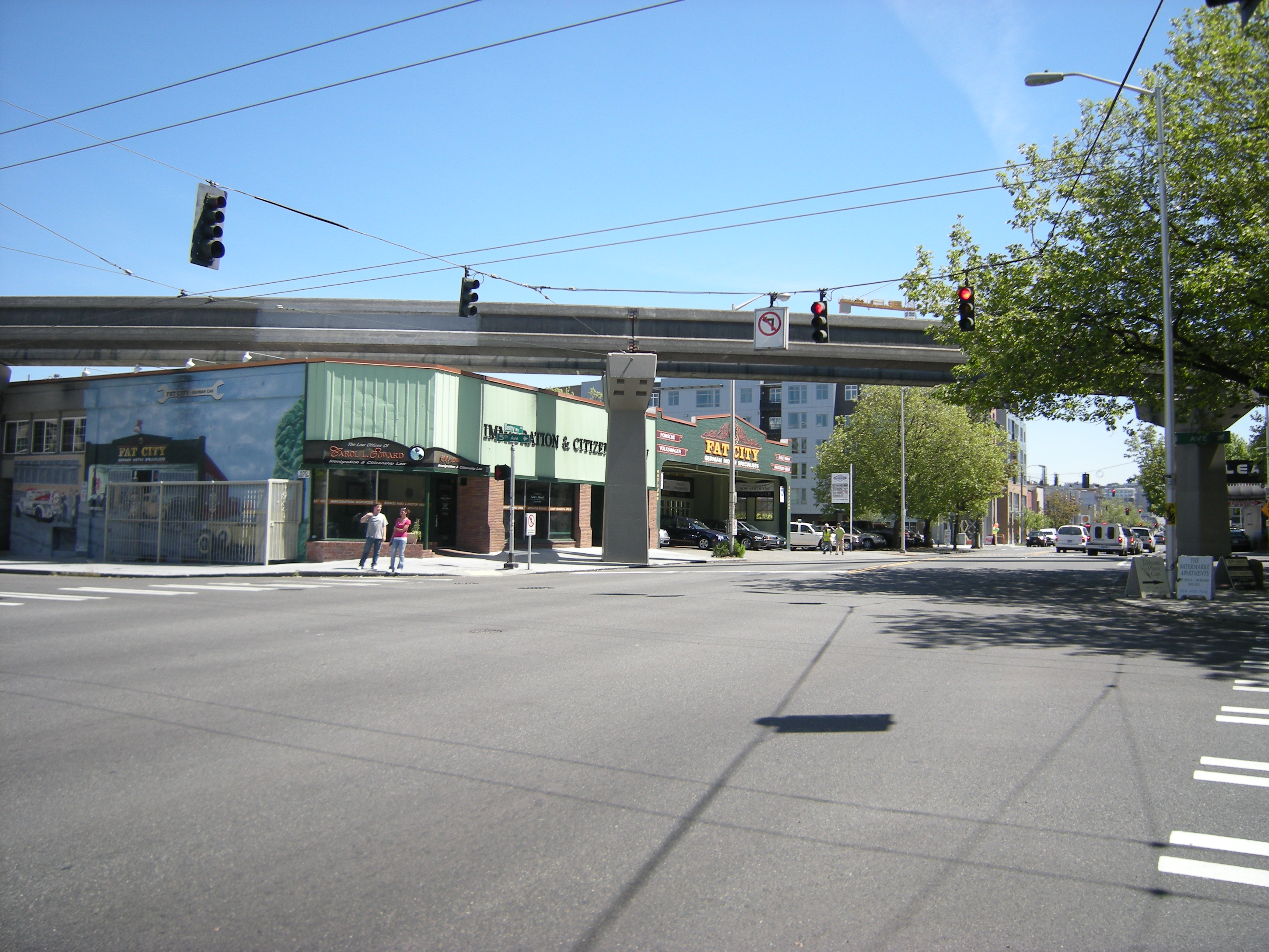 Fat City Motors 508 Denny Way, (and other businesses), Seattle, Washington.